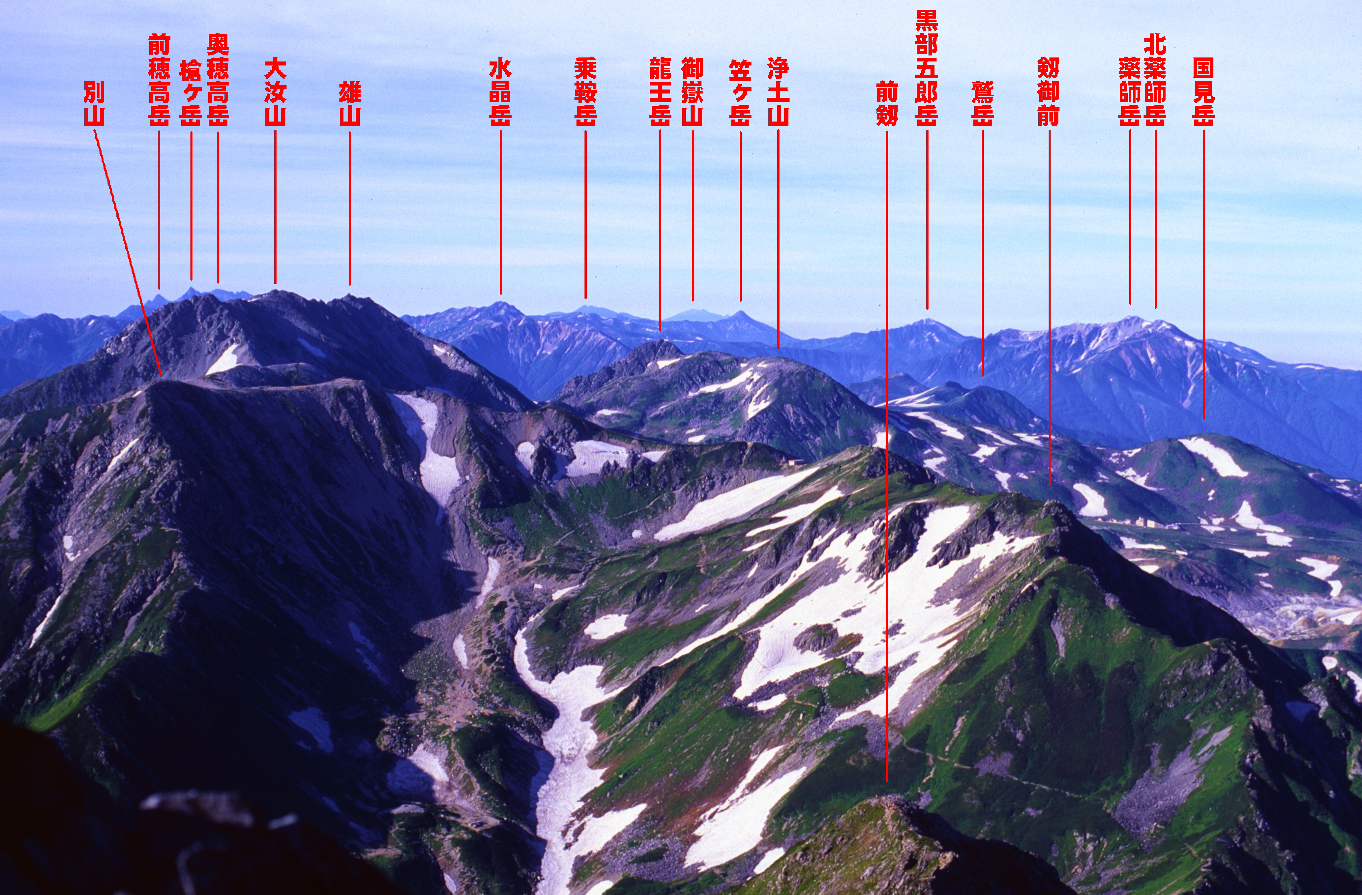 Mountains in the Japanese North Alps seen from the top of Mount Tsurugi. Taken with PENTAX LX + smc PENTAX-M 1:1.4 50mm